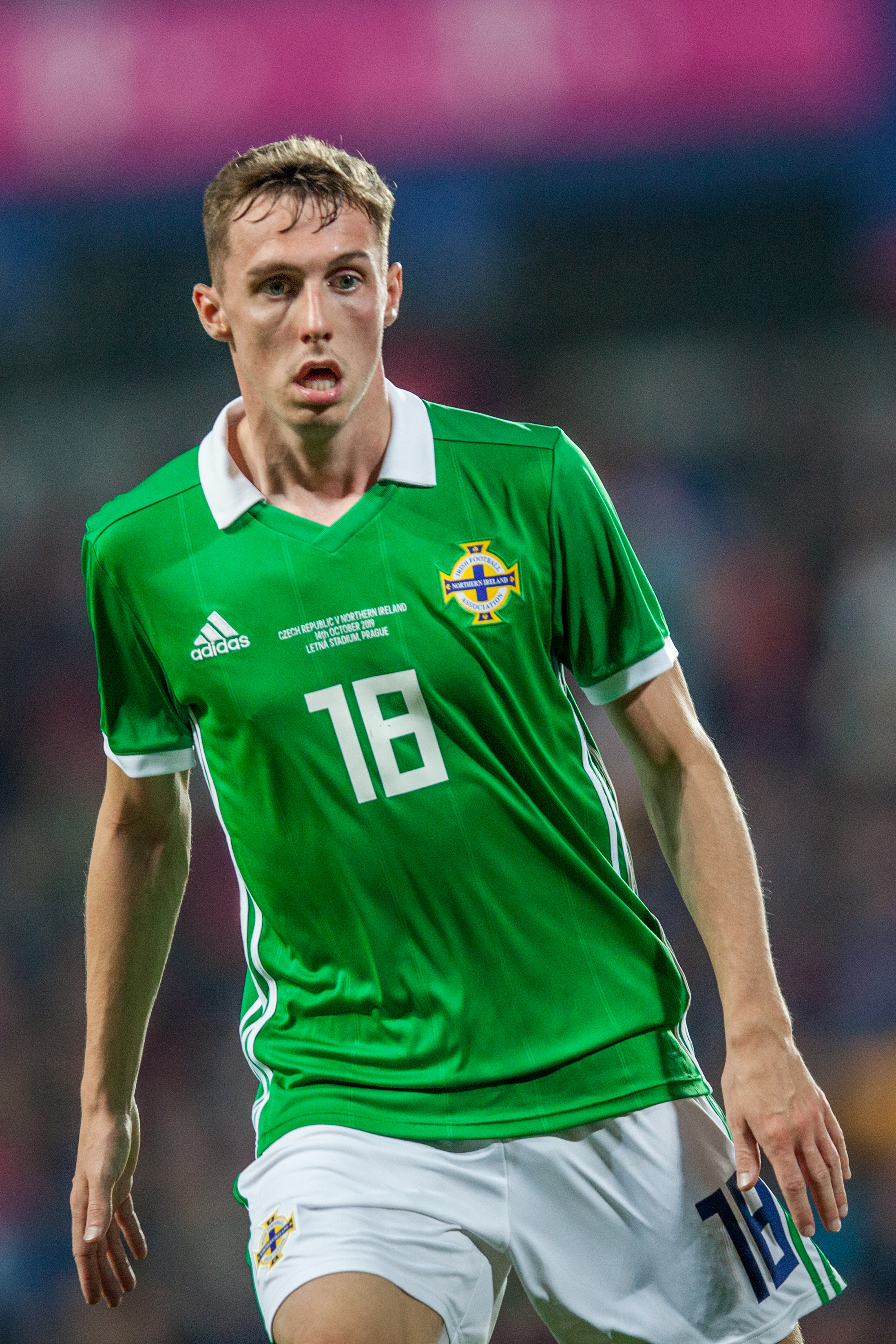 Gavin Whyte in an international friendly match between Czech Republic and Northern Ireland (2:3), Stadion Letná (Prague) 2019-10-14 The making of this work was supported by Wikimedia Austria. For other files made with the support of Wikimedia Austria, please see the category Supported by Wikimedia Österreich. Personality rights warningAlthough this work is freely licensed or in the public domain, the person(s) shown may have rights that legally restrict certain re-uses unless those depicted consent to such uses. In these cases, a model release or other evidence of consent could protect you from infringement claims.